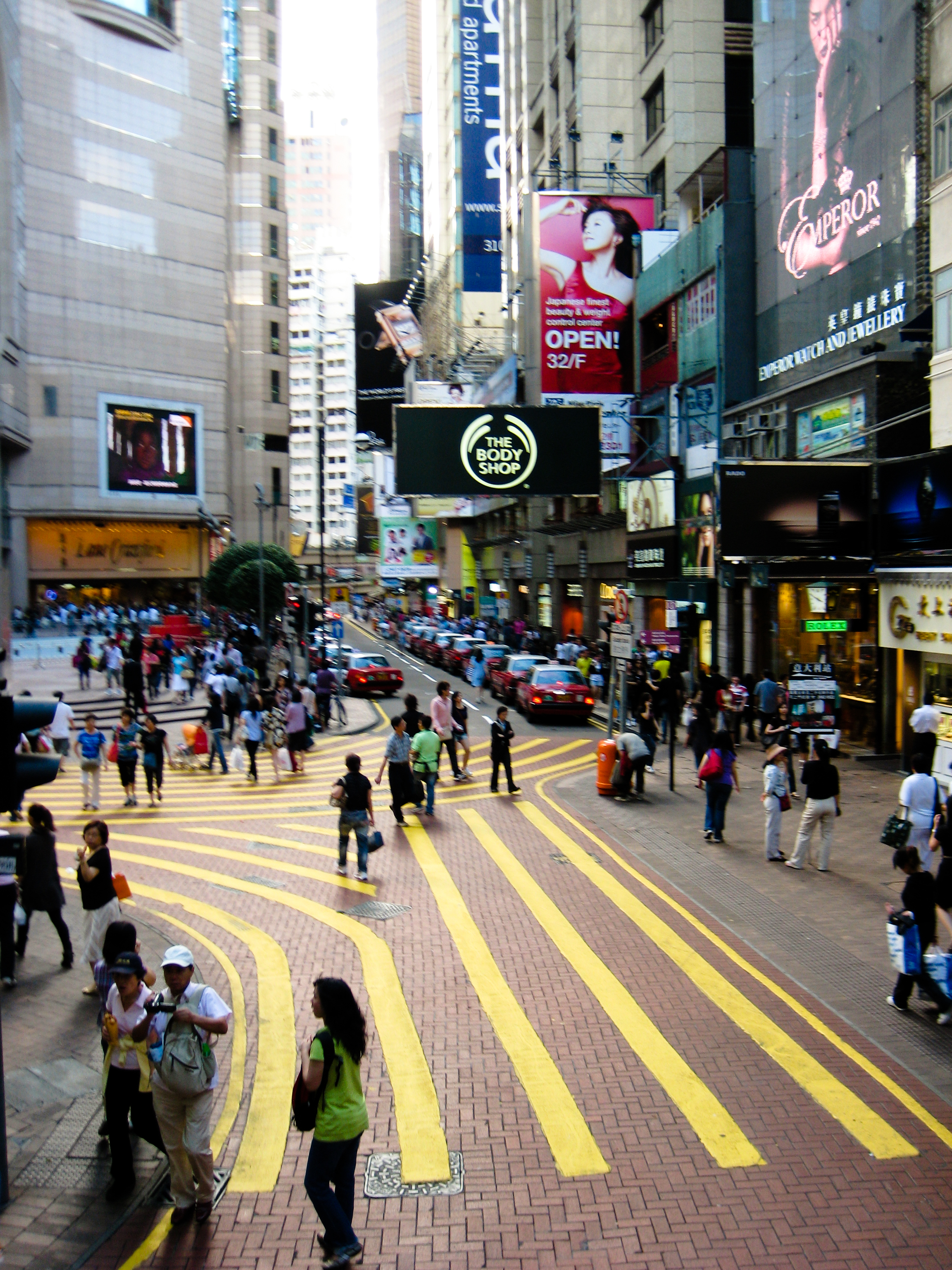 Russell Street, Hong Kong